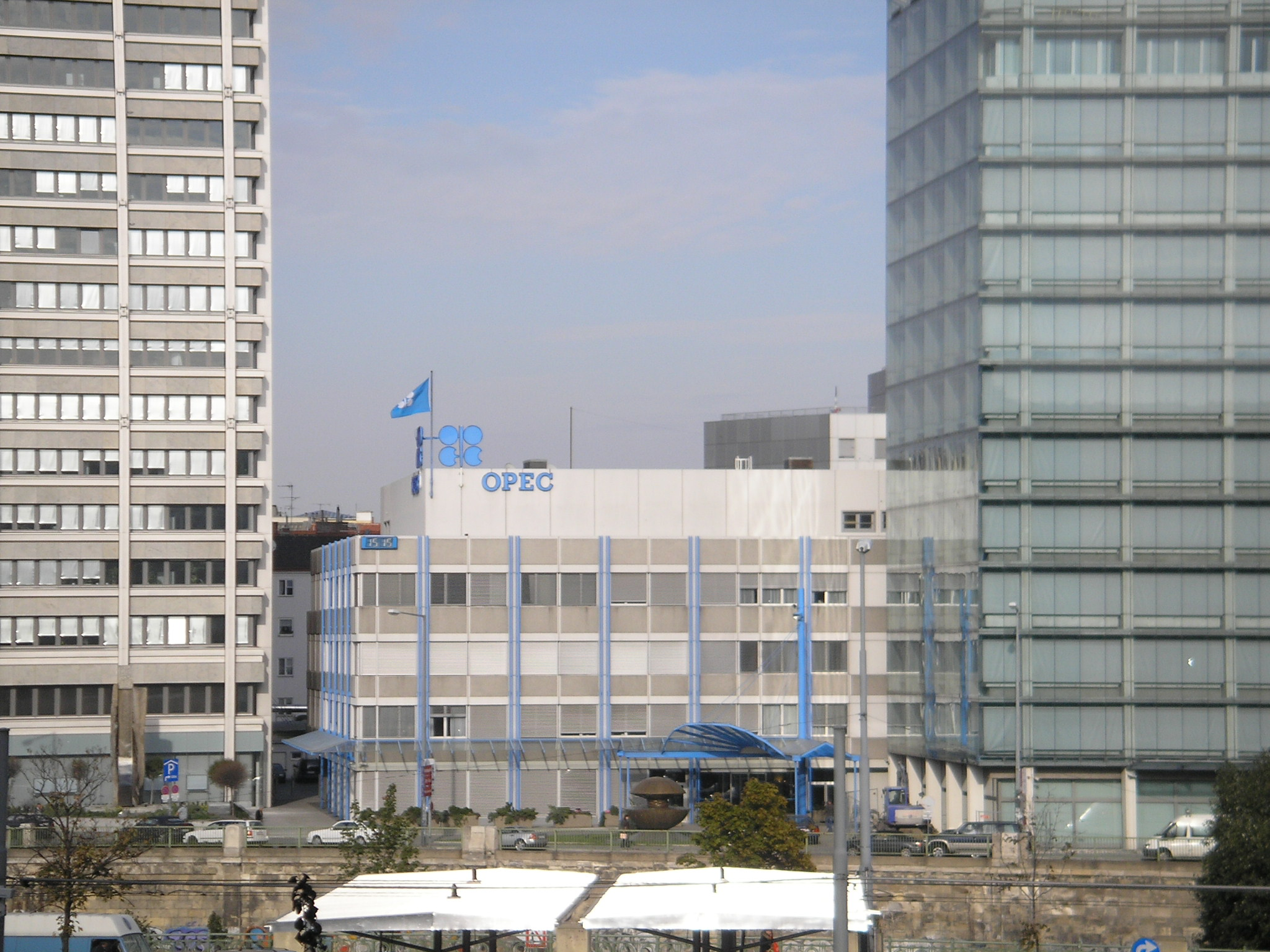 View of the headquarters of OPEC in Vienna's second district Leopoldstadt.